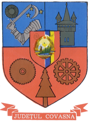 Communist coat of arms of Covasna County, Socialist Republic of Romania.